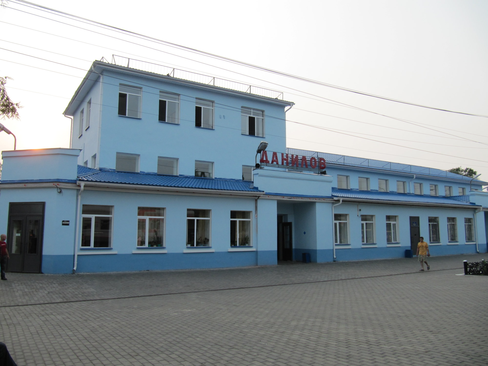 Danilov railway station